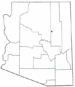 23:11, 28 June 2004 Catbar 260x300 (22393 bytes) ( msg:GFDL )